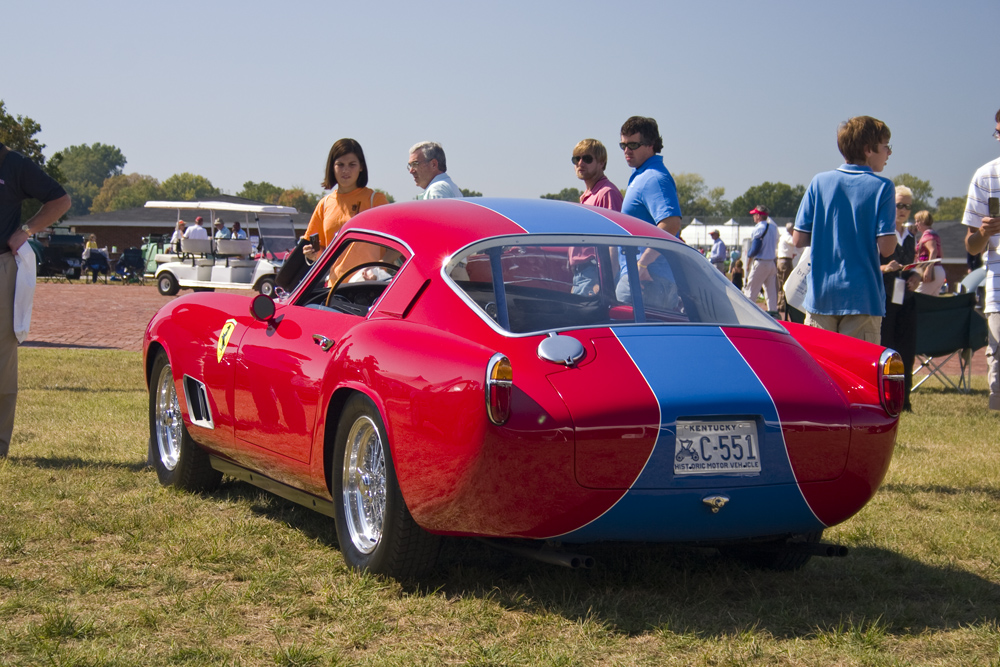 Ferrari 250 TDF in the infield of Churchill Downs at the Louisville Concours d’Elegance. Lotus Elise Blog